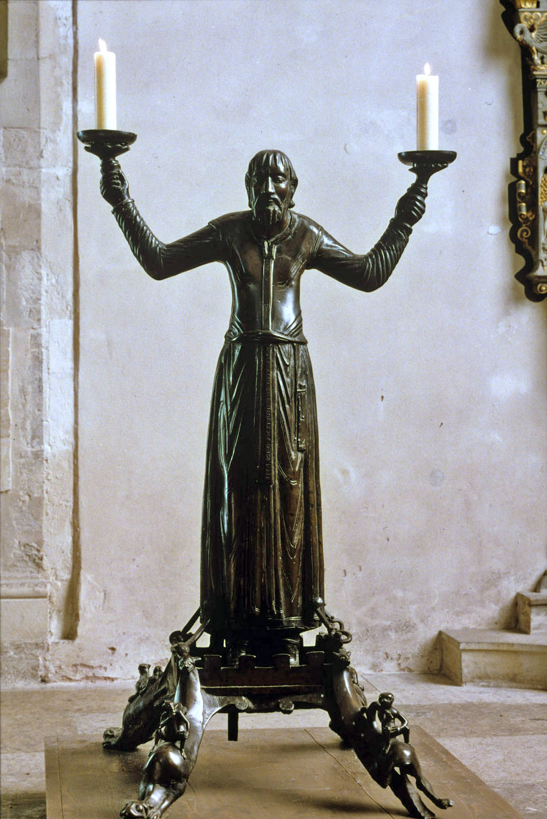 "Wolfram" candlestick in St. Mary's Cathedral, Erfurt (ca. 1160)